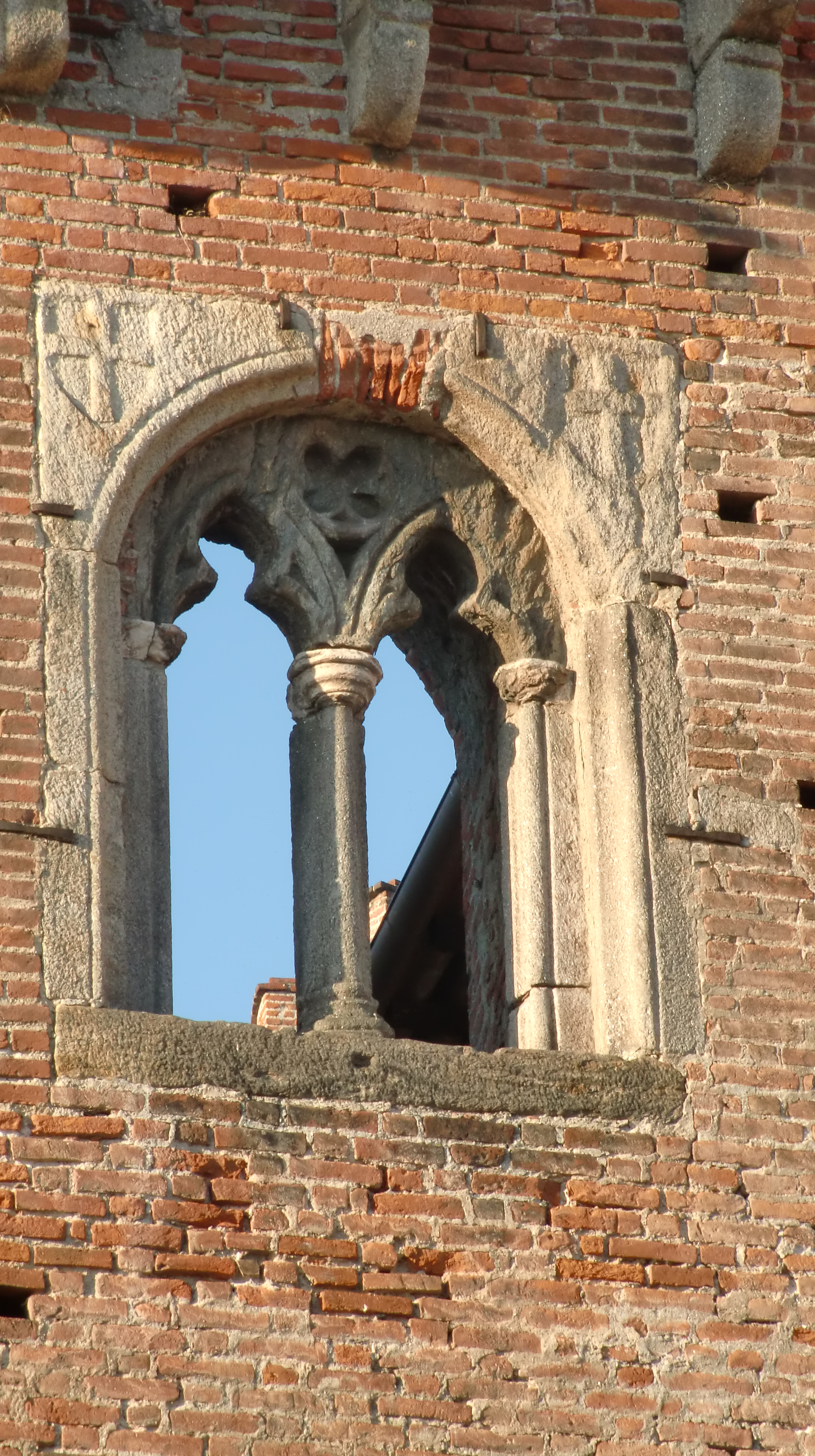 Ivrea, the Castle, A window of the castle